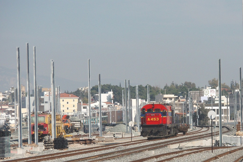 Work in progress at Acharnes Railway Center, while MLW diesel locomotive A-453 hawls freight train 54507 to Rentis Depot over the existing Athens-Inoi line.